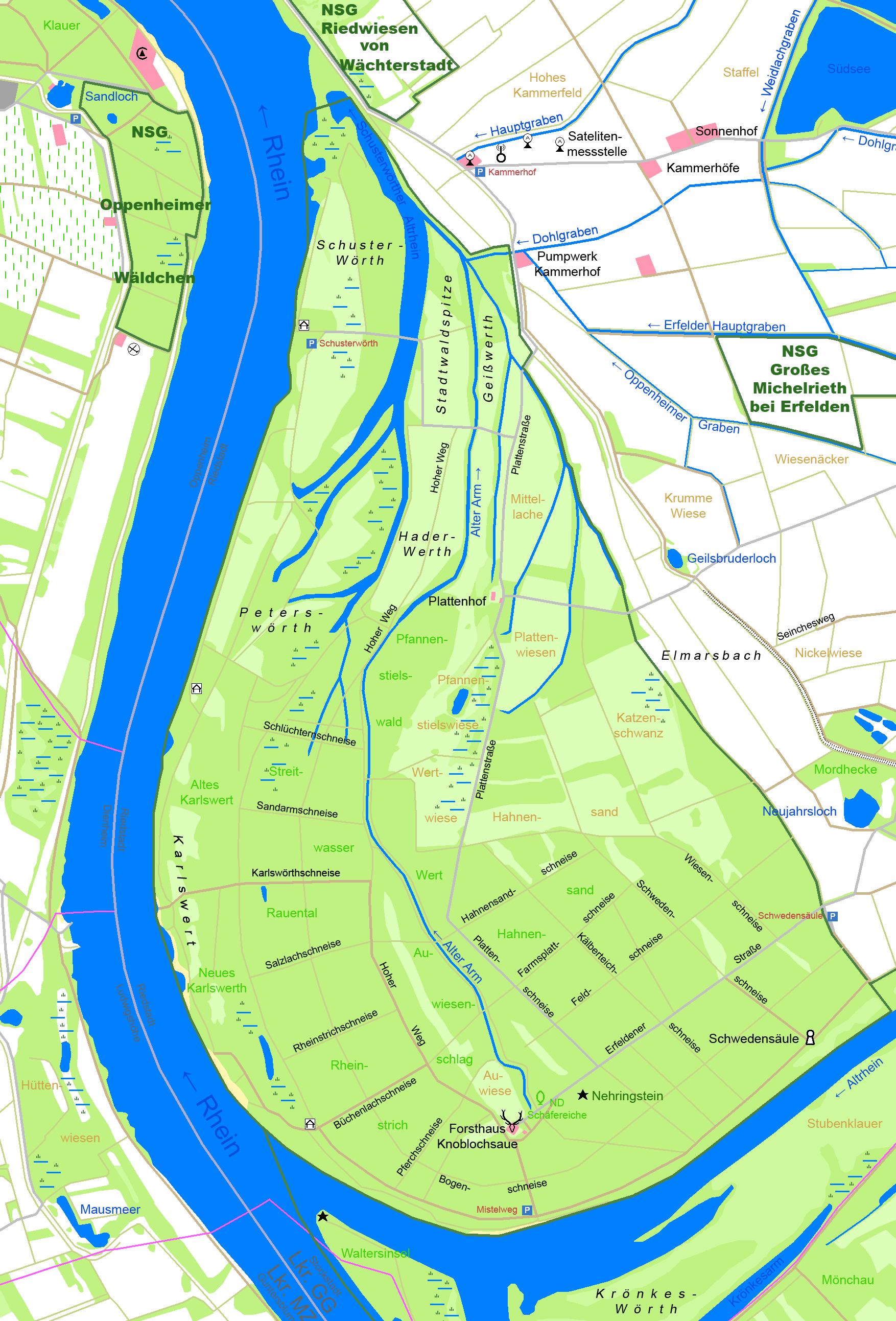 Map of nature reserve Knoblochsaue Settlement area Industrial area Forest Grassland, Meadow Body of water Beach Mire Vineyard Border of Municipality Border of nature reserve Side road Trail Agricultural road Parking lot Tourist attraction Hut Radio mast Parabolic antenna Aerodrome Campsite Natural monument Fink Field name